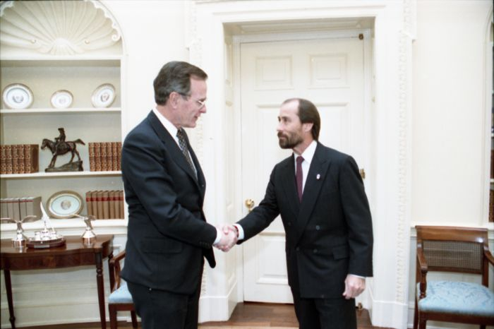 President George H. W. Bush greets Lee Greenwood in the Oval Office